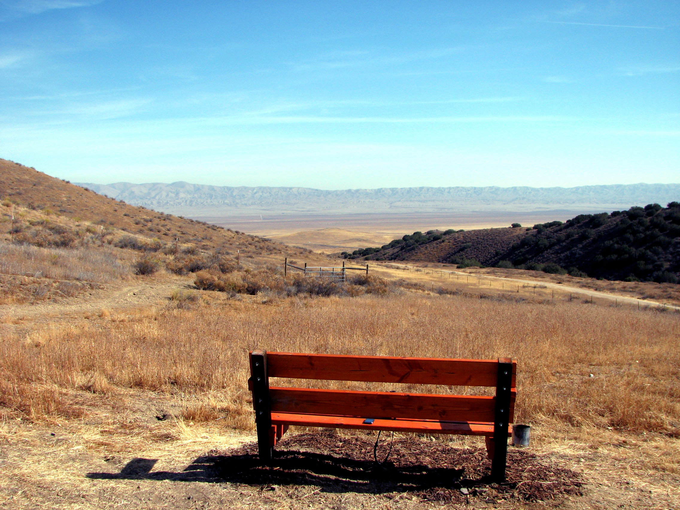 A Fall view of Carrizo Plain National Monument from the Selby Campground. This bench is located at an elevation of 2,520 feet at the eastern edge of the campground. Carrizo Plain is located in eastern San Luis Obispo County, central California. Mano Seca Group This bench with its view of the Carrizo Plain is another one installed by the Mano Seca Group and provided free of charge to the public so that they might enjoy the scenic western United States. All Mano Seca benches are branded and trademarked. Find all the other Mano Seca benches in the West!